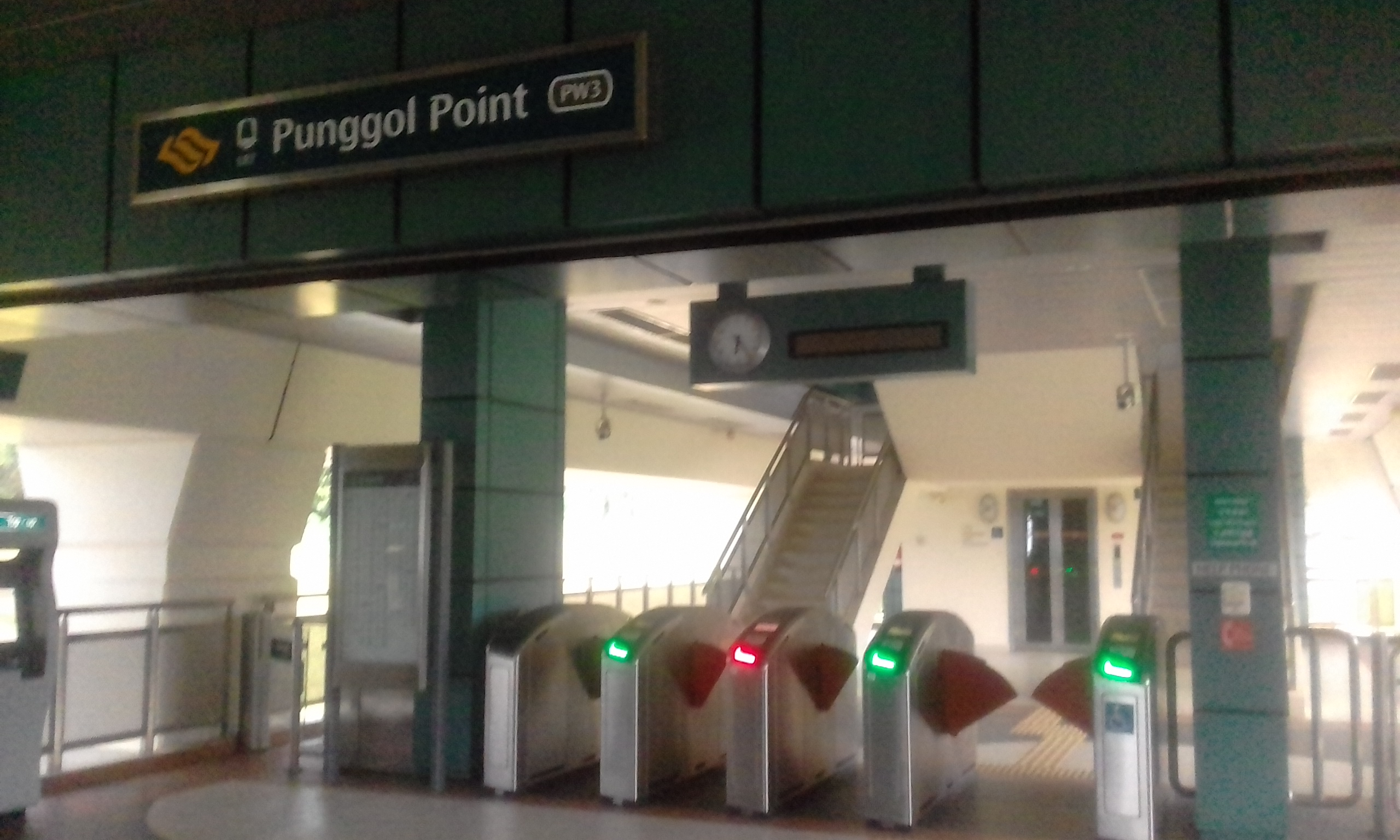 Punggol Point Concourse